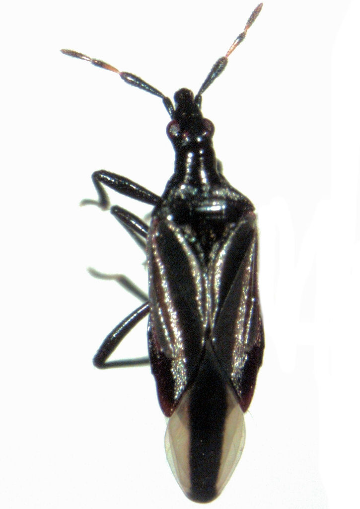 adult Anthocoris austropiceus (identity confirmed with the assistance of Tony Postle), but subsequently identified by David Horton (USDA) as Macrotrachelia nigronitens. A. austropiceus may turn out to be a junior synonym.